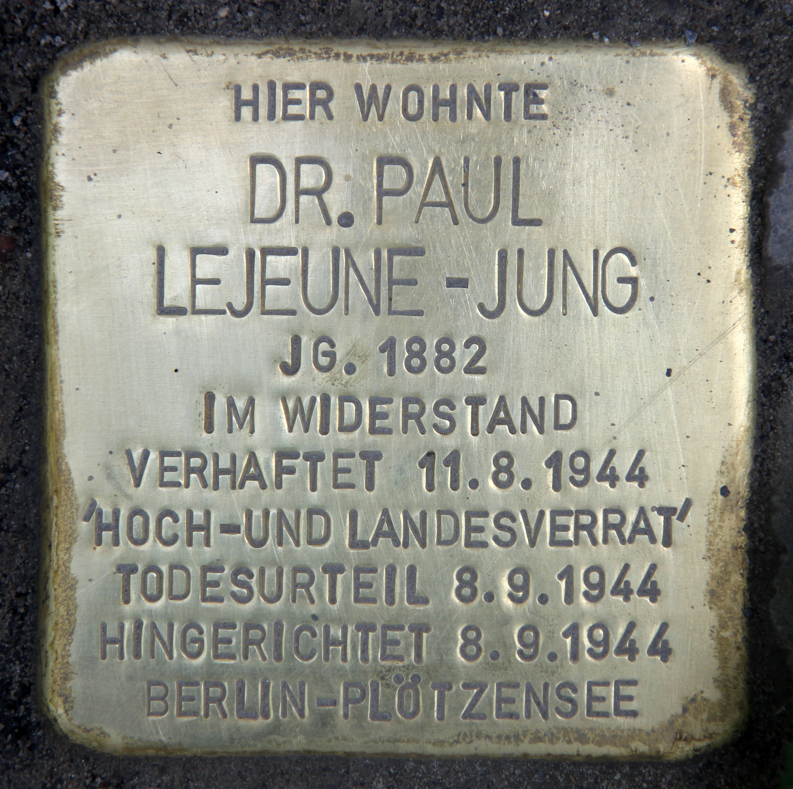 "Stolperstein" (stumbling block), Paul Lejeune-Jung, Lietzenseeufer 7, Berlin-Charlottenburg, Germany